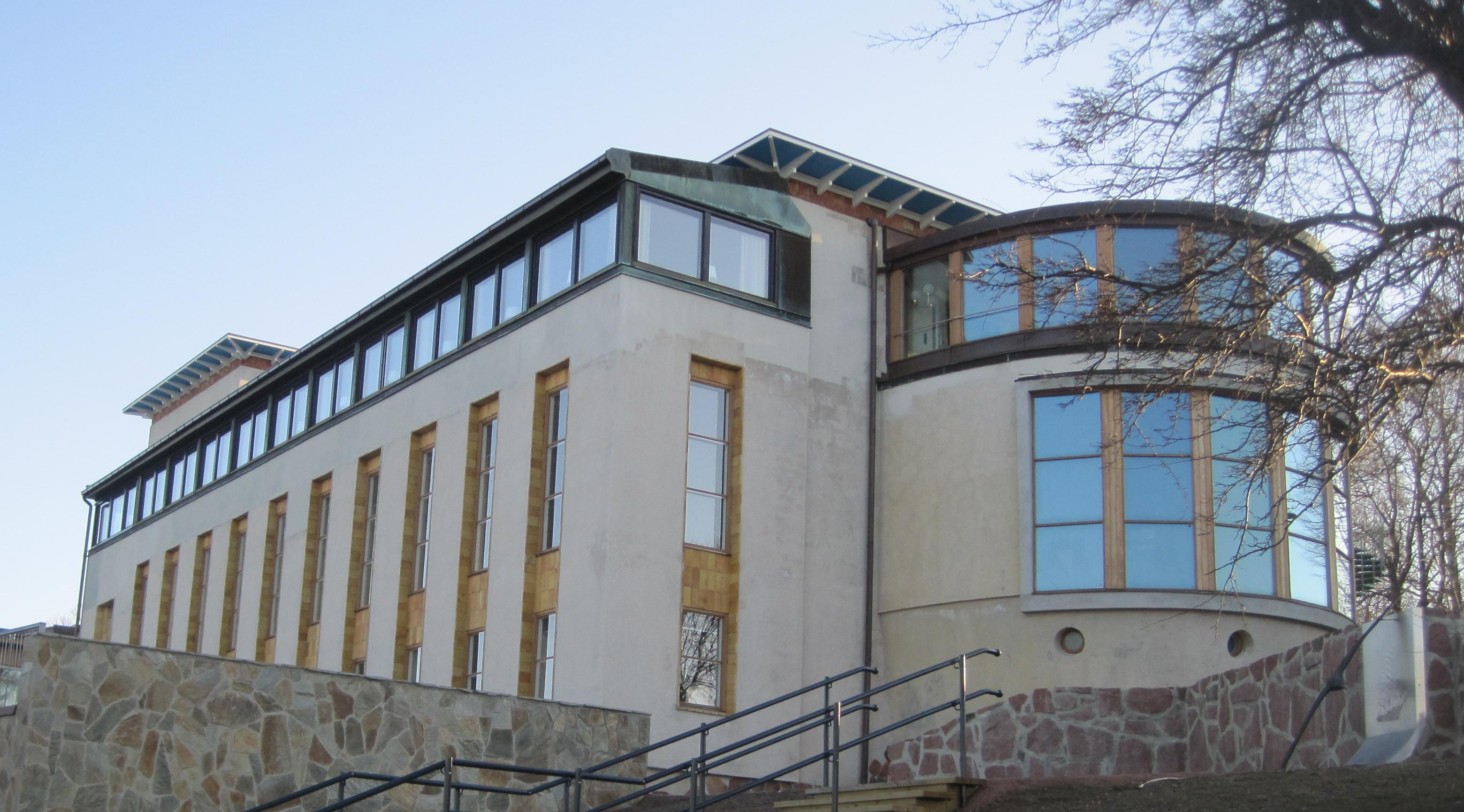 Maritime museum, Mariehamn, Finland